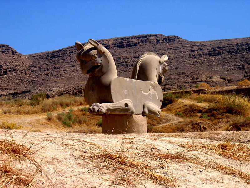 Homa Symbol. Personal Photo from Perspolis